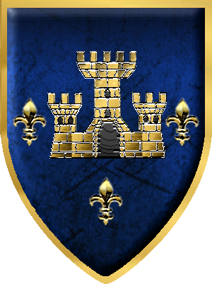 "The Coat of Arms of the Pavlović Family" Sulejmanagić, Amer (2012), journal Bosna Franciscana 36/2012: 165–206. (Grb Pavlovića - The Coat of Arms of the Pavlović Family - also in full html/pdf at ) Ćiro Truhelka, "Osvrt na sredovječne kulturne spomenike Bosne", GZM BiH XXVI – 1914, Sarajevo, 1914, 228 - 230. “Mi znamo, da se je vojvoda Radoslav Pavlović trsio, da njegov dvor u Dubrovniku bude što sjajniji a na svom grbu, što je imao da ukrasi ulaz, nije žalio potrošiti ni zlata ni lapis lazuli, najskupocjeniji slikarski materijali one dobe...” - Dr. Ćiro Truhelka, "Osvrt na sredovječne kulturne spomenike Bosne", p.229. "The Palace of Duke Sandalj Hranić in Dubrovnik"(html/pdf), by Nada Grujić, Danko Zelić, Anali Zavoda za povijesne znanosti Hrvatske akademije znanosti i umjetnosti u Dubrovniku, No.48, July 2010, Dubrovnik; (Državni Arhiv Dubrovnik) DAD Div. Canc. sv.44, f. 147r; 31.V.1427 “Duos cimerios de arma" koje je 1427. god. Ratko Ivančić klesao za Radoslavljevu palaču bili su dimenzija 2,5 lakta po visini i širini (1,28 x1,28 m)”